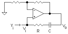 Wien bridge oscillator input admittance analysis schematic